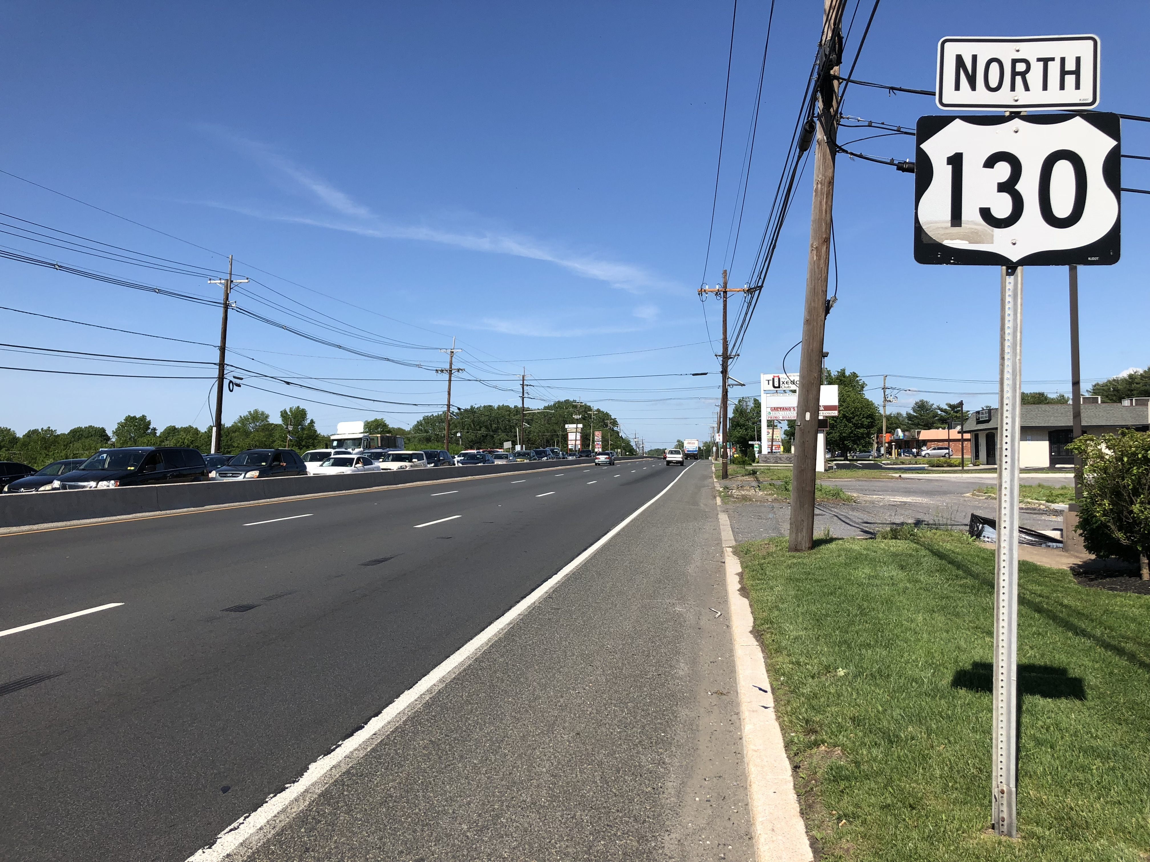 View north along U.S. Route 130 (Burlington Pike) at Taylors Lane in Cinnaminson Township, Burlington County, New Jersey